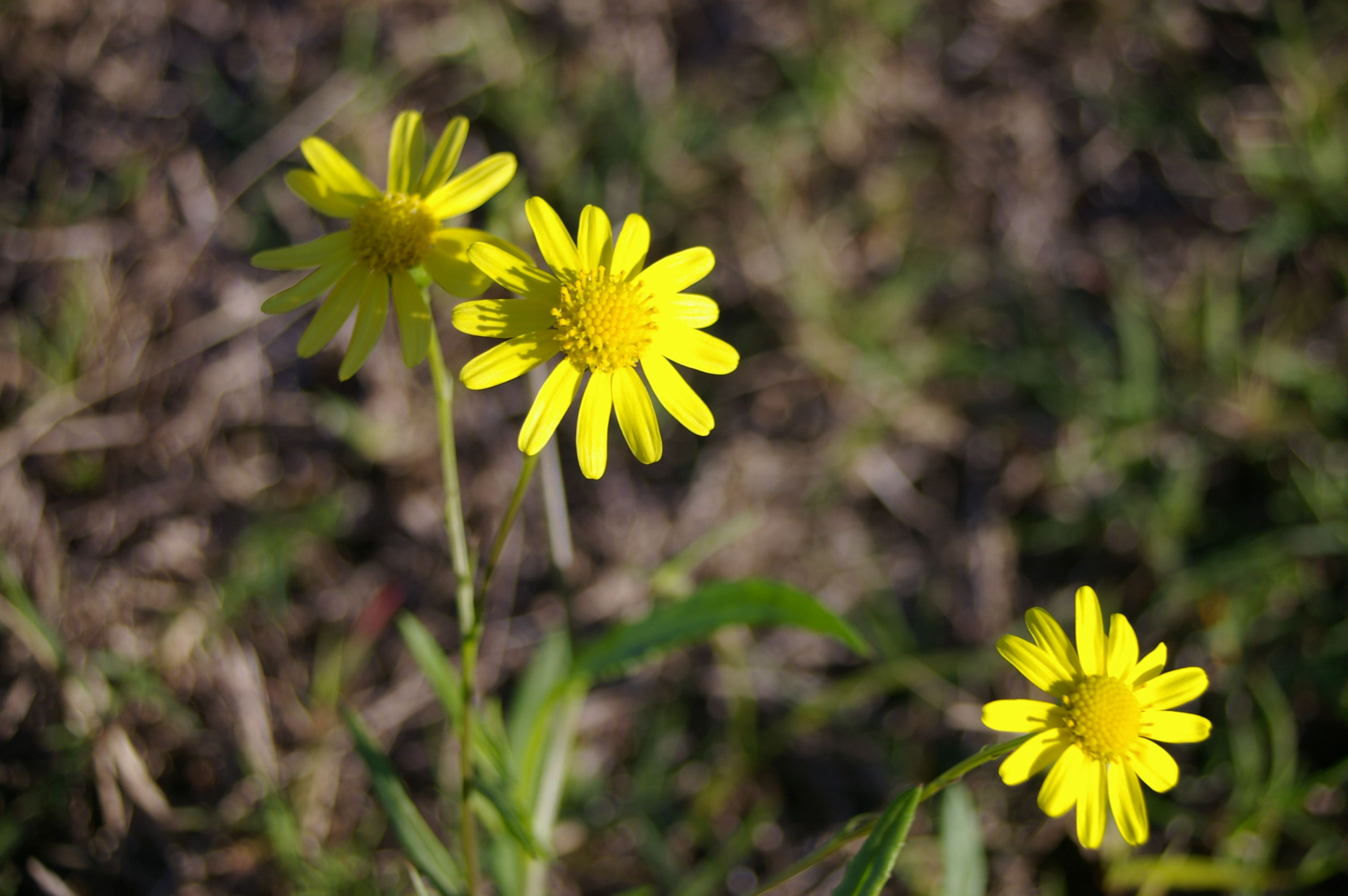 Senecio madagascariensis , fireweed, is a noxious daisy found on the cricket ovals and mown areas of 7th Brigade Park. It is an introduced species that is potentially lethal to livestock.